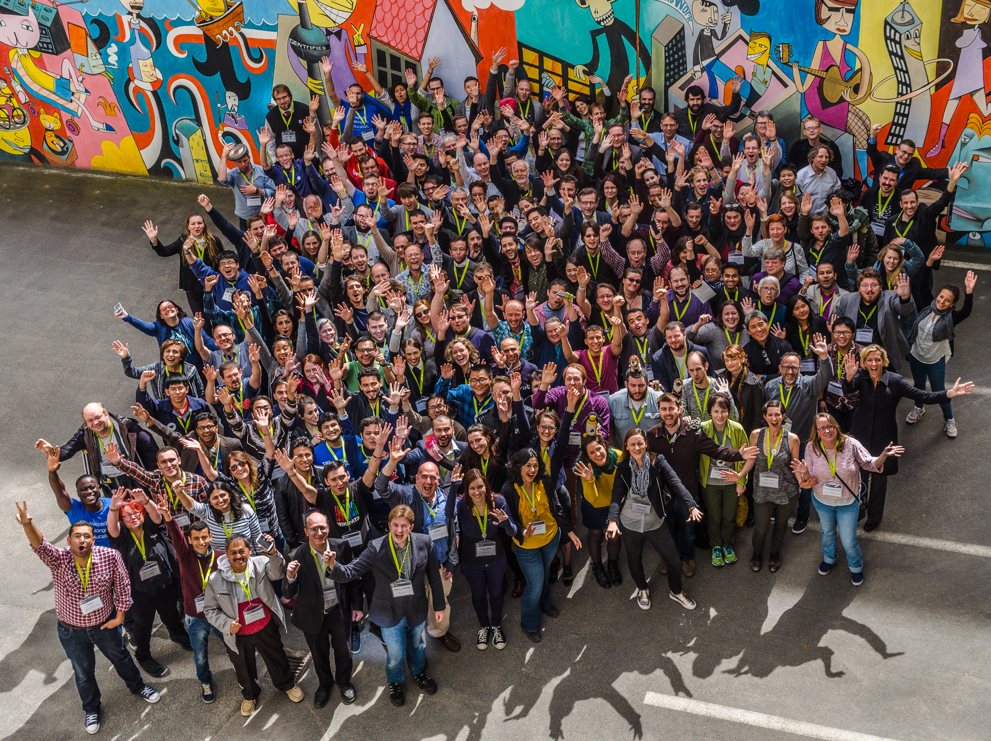 Group photo of the Wikimedia Conference 2016